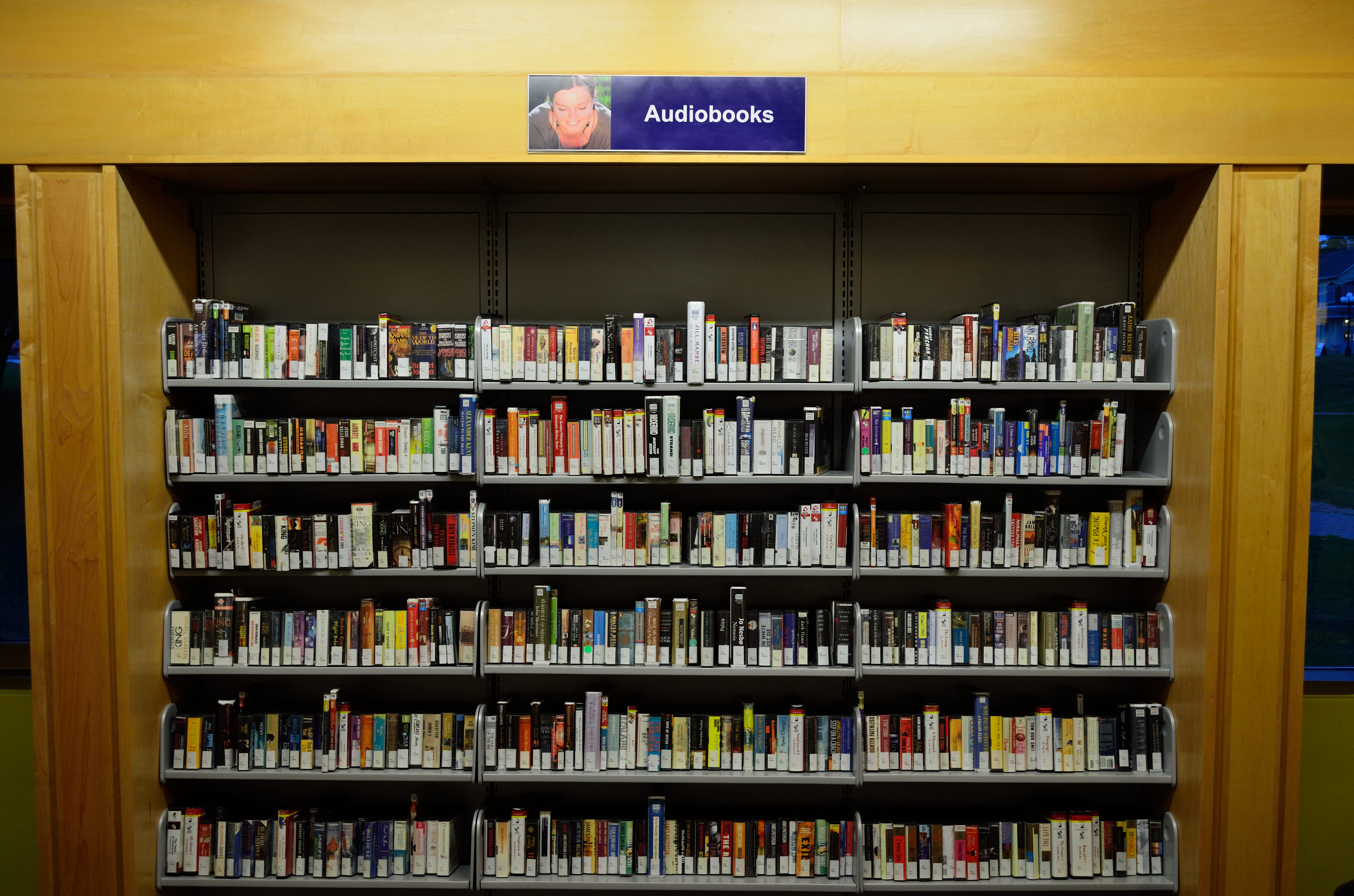 Audiobooks in a public library